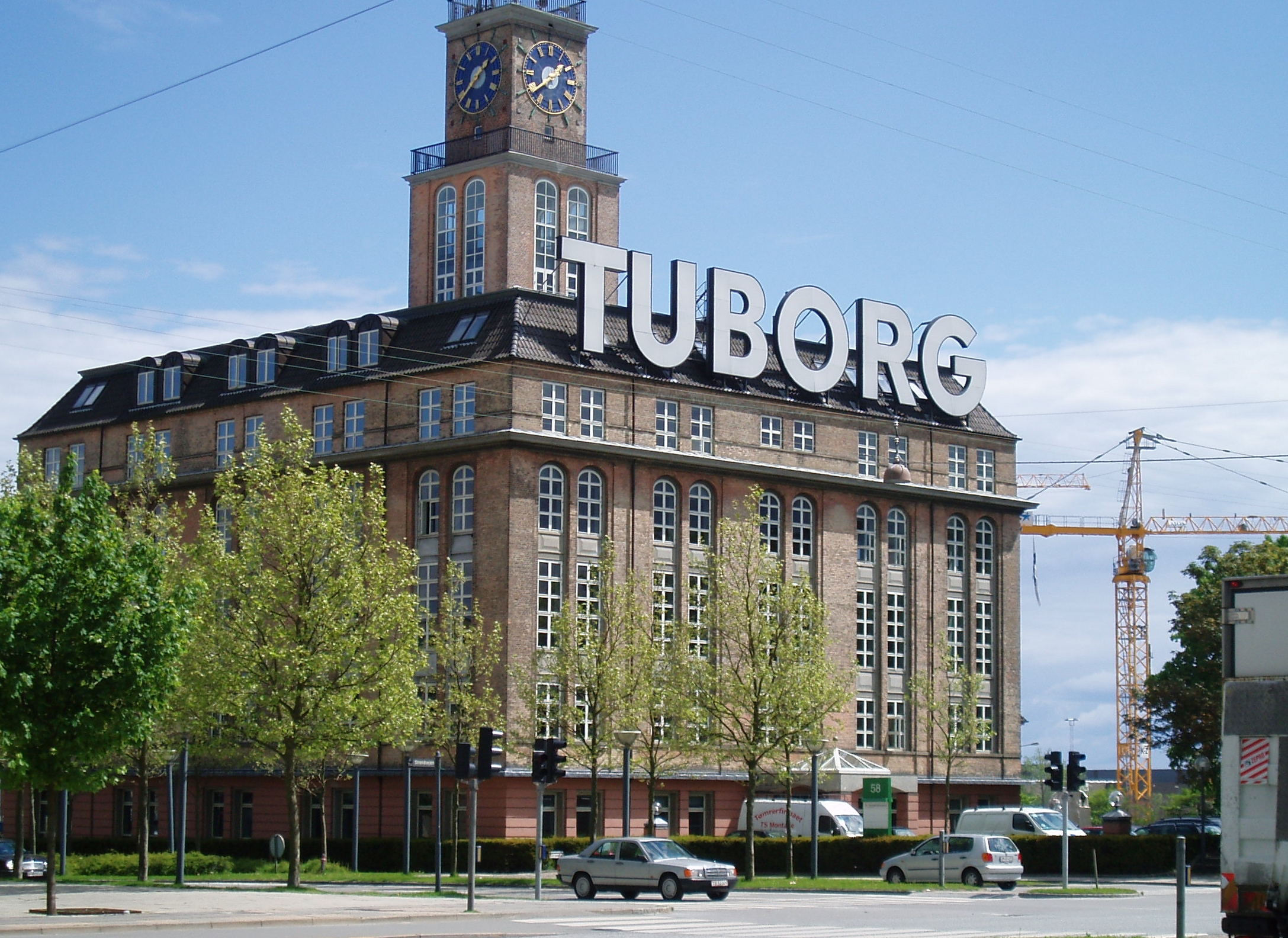 Former offices of the Tuborg brewery in Hellerup - now owned by Carlsberg.